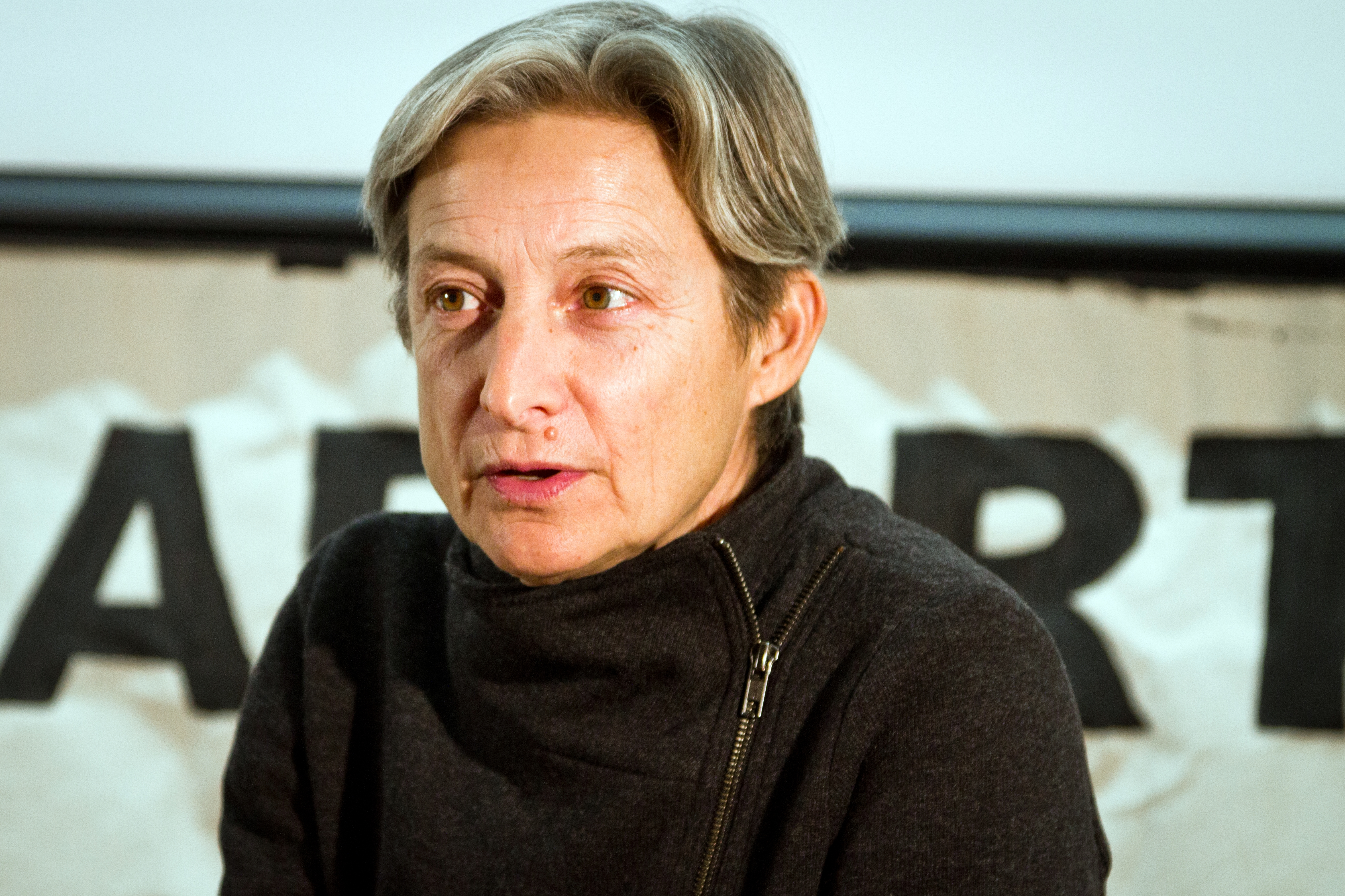 Judith Butler